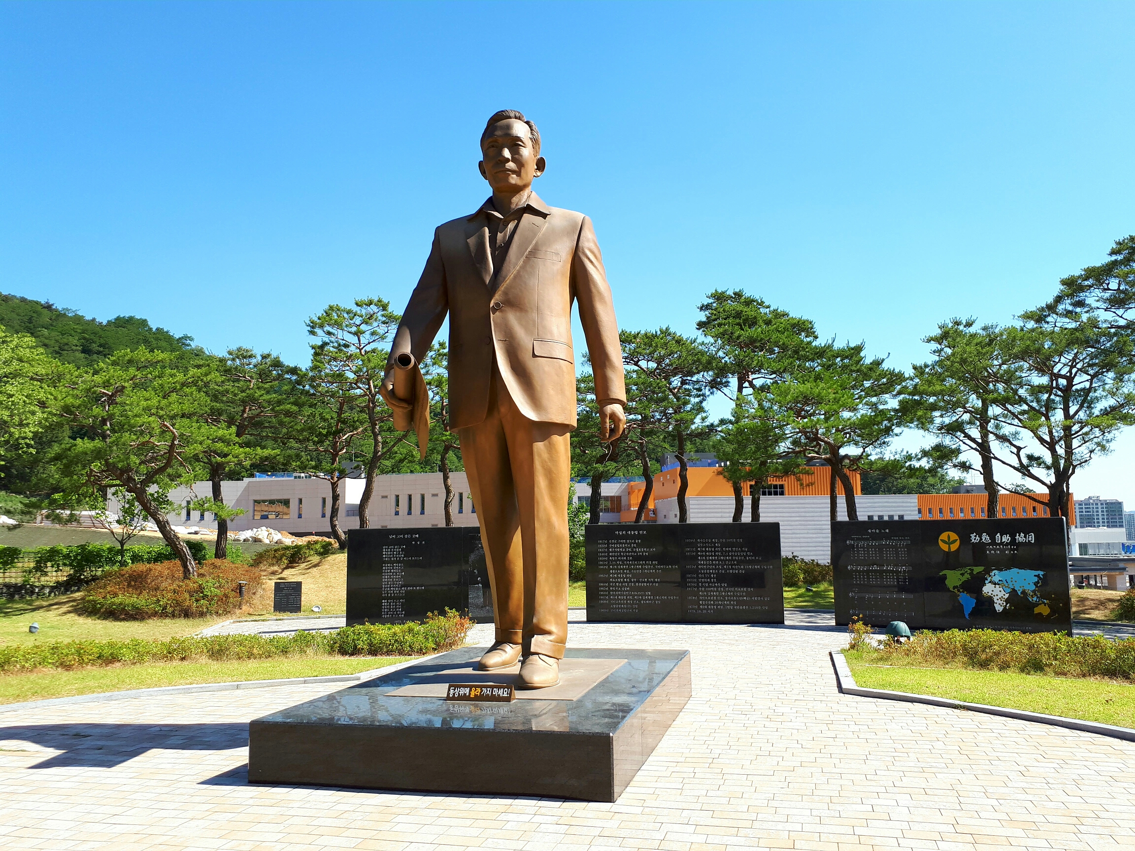 Statue of Former South Korean President Park-Chunghee, Near Birthplace of Park-Chunghee